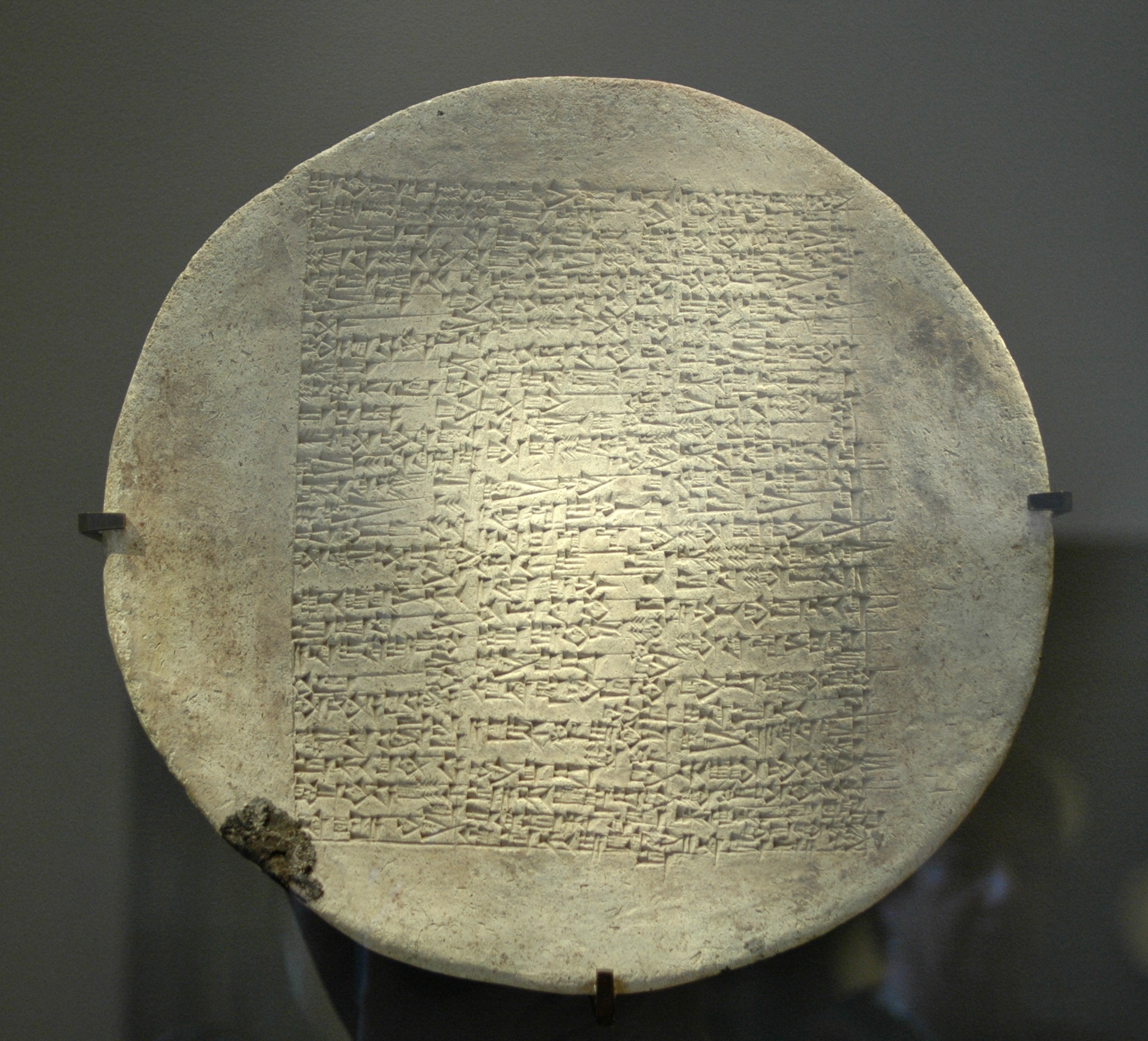 Inscripted disk of Yahdun-Lim, king of Mari. Terracotta, ca. 1800 BC.